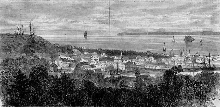 View of Astoria, Oregon, a wood engraving published in Harper's Weekly, May 30, 1868.